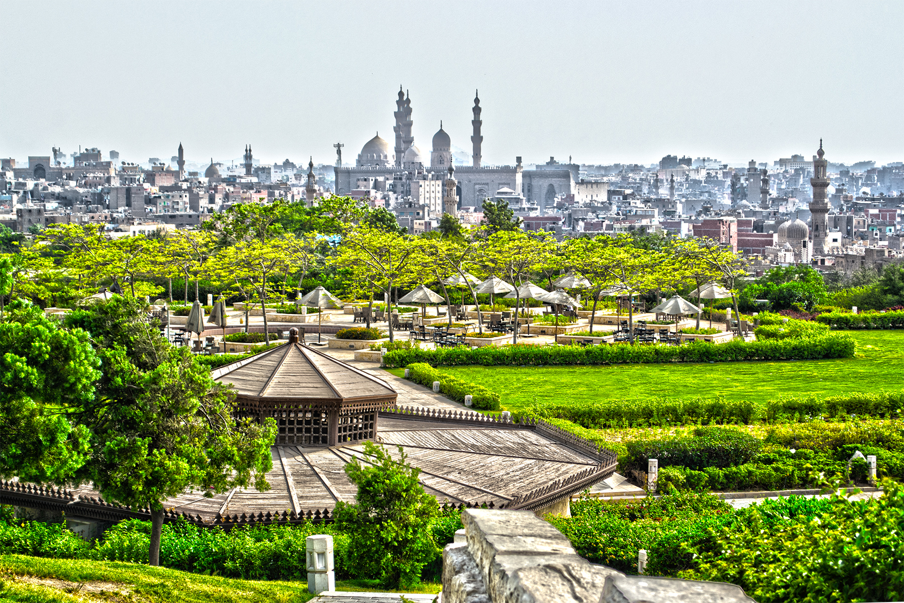 Al Azhar Park garden view